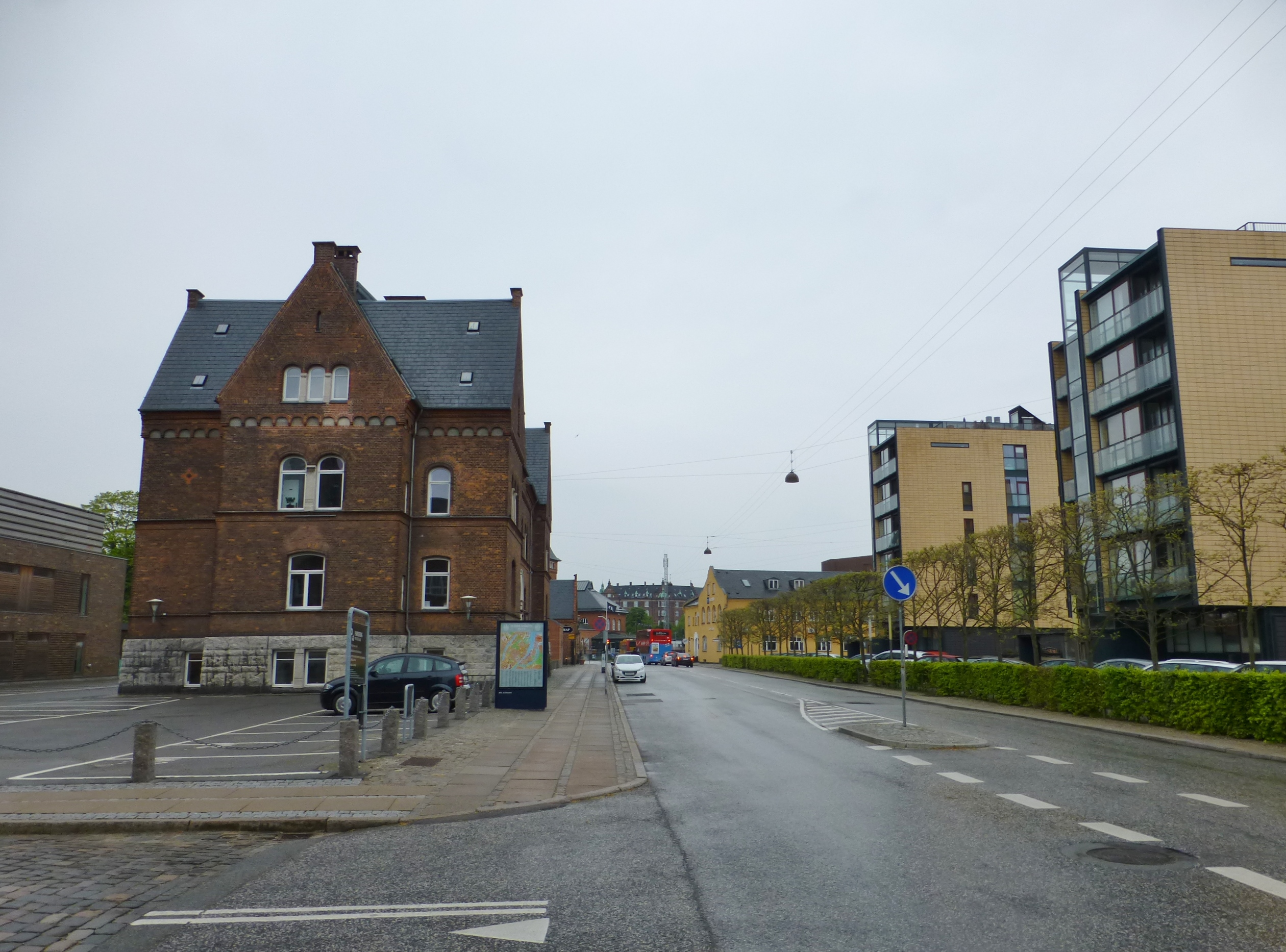 The street Indiakaj at Forbindelsesvej in Østerbro in Copenhagen.